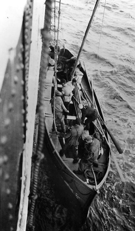 USS Siboney (ID # 2999) Survivors of the torpedoed British transport Dwinsk come aboard from the first of two lifeboats, in the early morning of 21 June 1918. Siboney picked up 46 Dwinsk survivors in Lat. 39 05'N, Long. 65 35'W. Both lifeboats were subsequently set adrift. Photographed by Machinist John G. Krieger, USN. Donation of John G. Krieger, 1967.